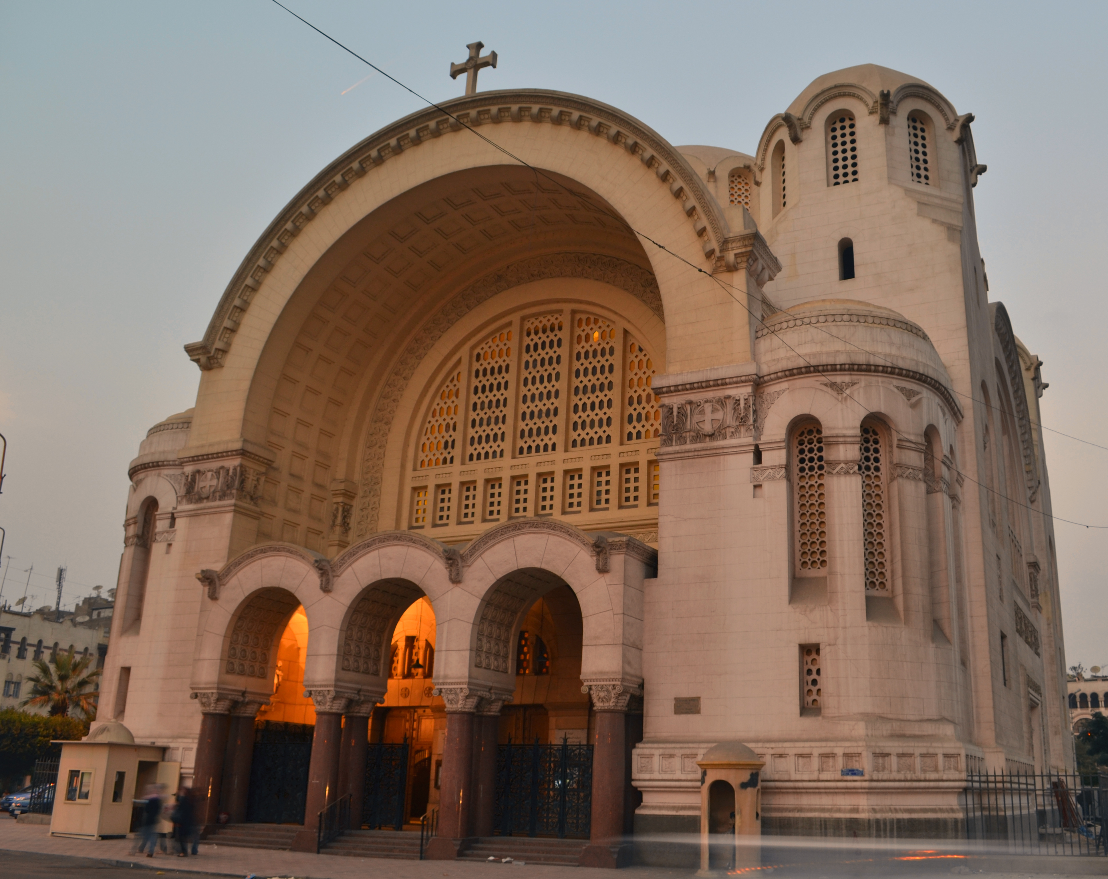 bazilik church